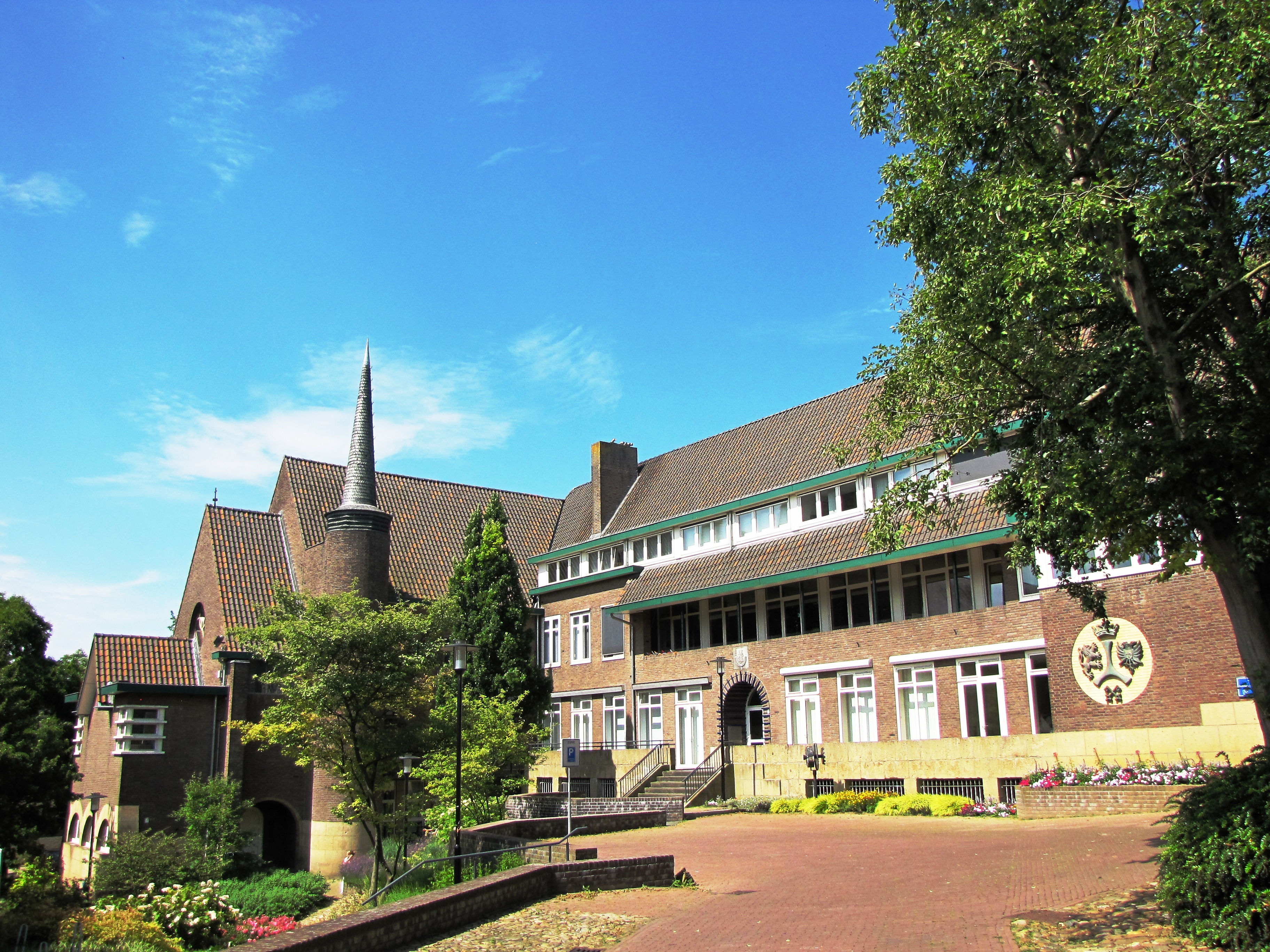 Town hall from Gulpen,Limburg,The Netherlands